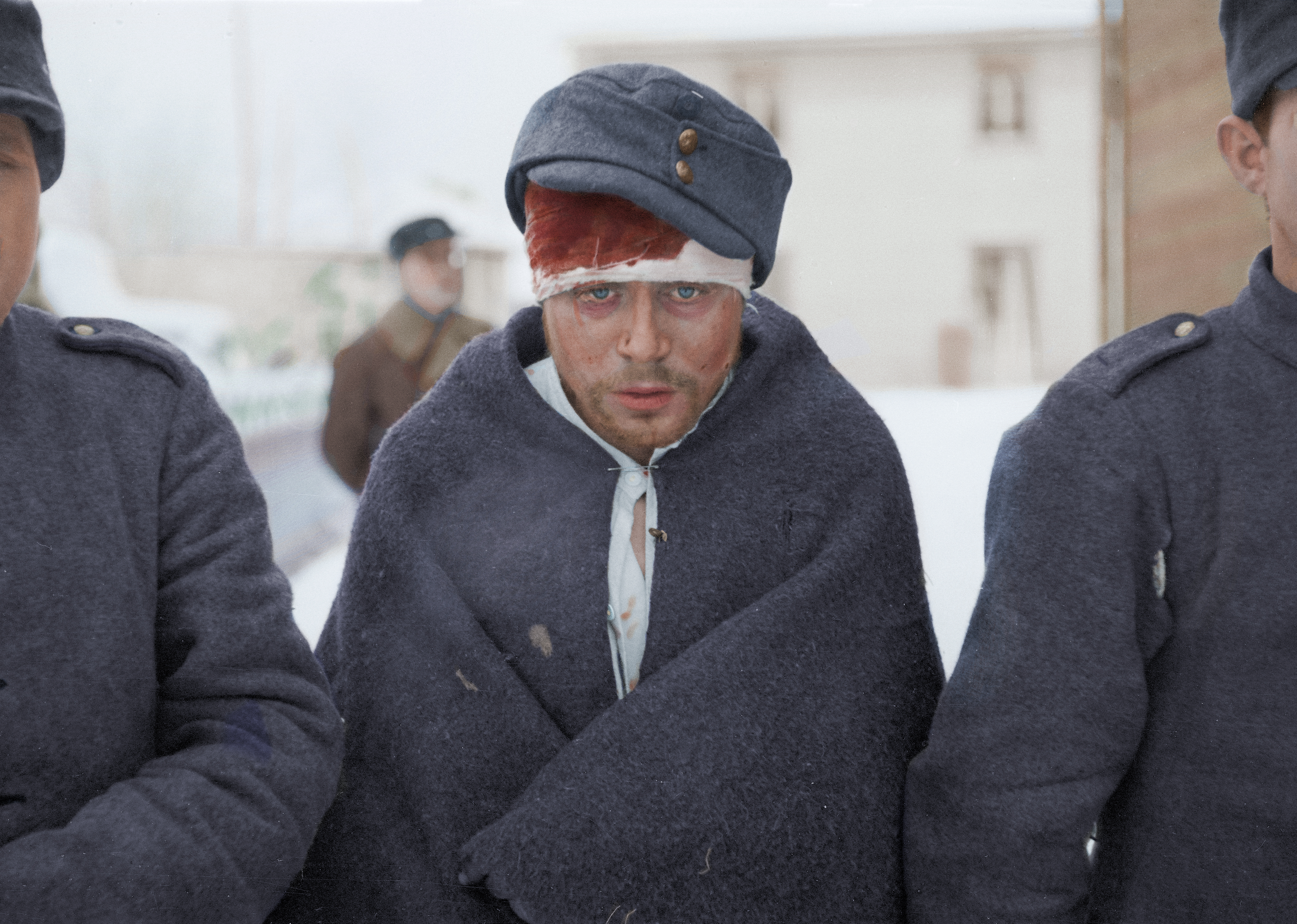 Soviet soldier takes a thousand-yard stare while a group of prisoners of ware are being held in a Finnish base in Rovaniemi, 6th January 1940. The nine prisoners that formed this group photograph had been provided with Finnish uniforms and caps.